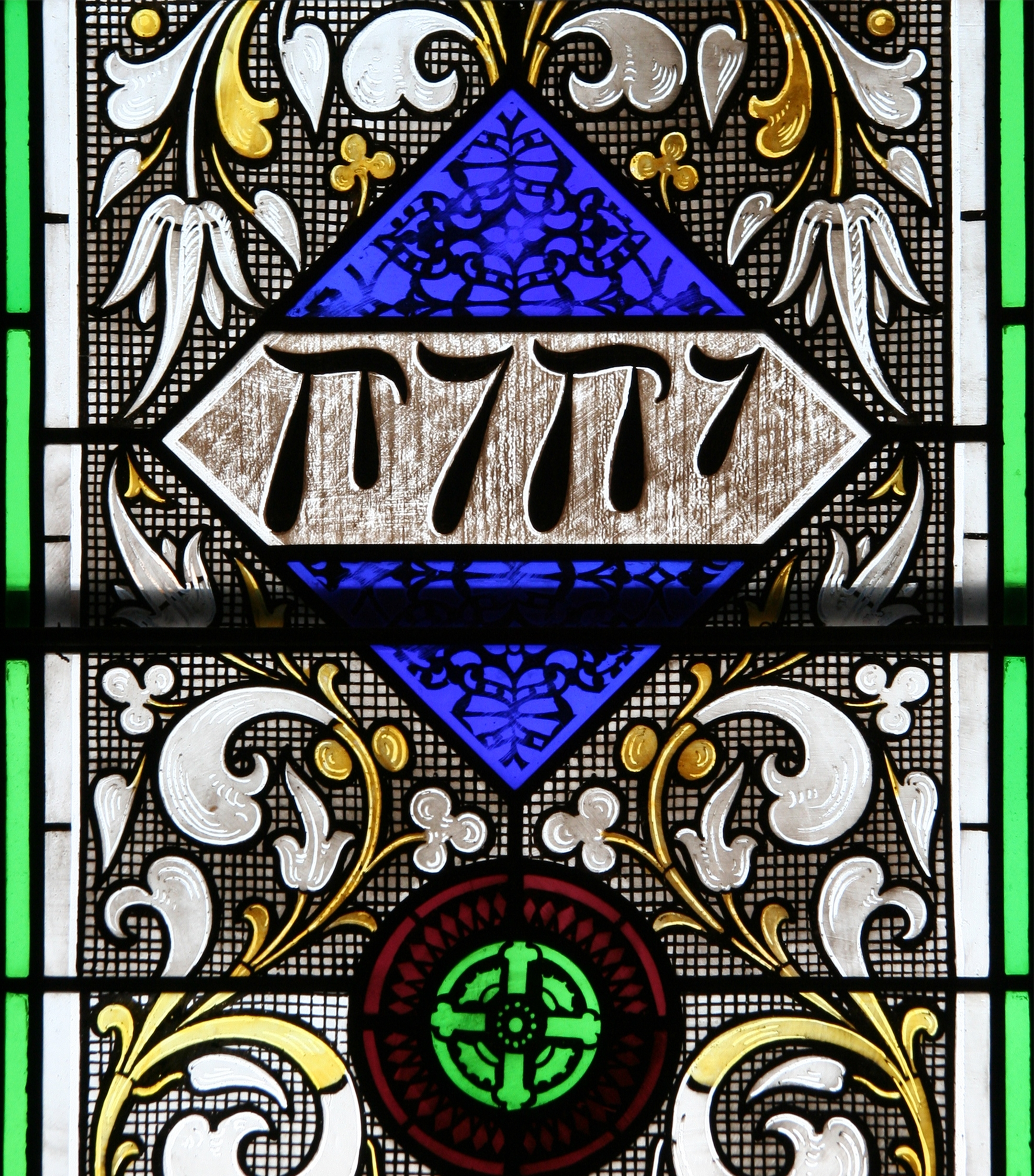 Detail of a stained glass window featuring a representation of the Tetragrammaton installed in Grace Episcopal Church soon after 1868 when the church was built in Decorah, Iowa, United States